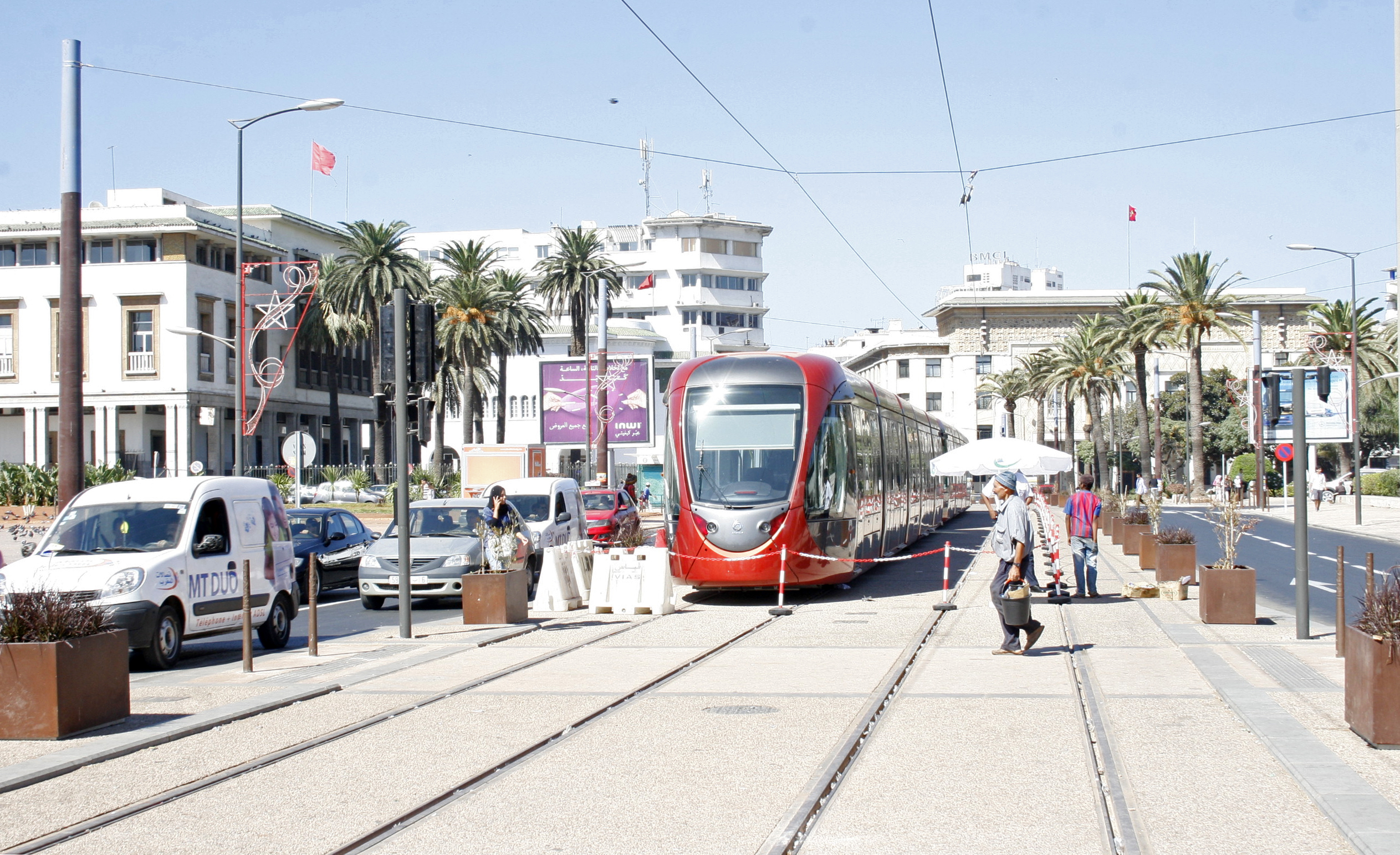 Casablanca Tramway